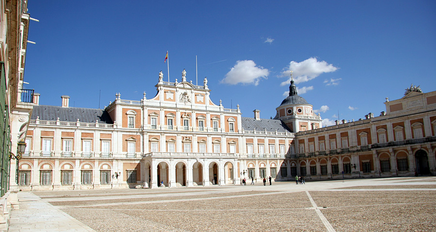 Royal Palace of Aranjuez, Spain